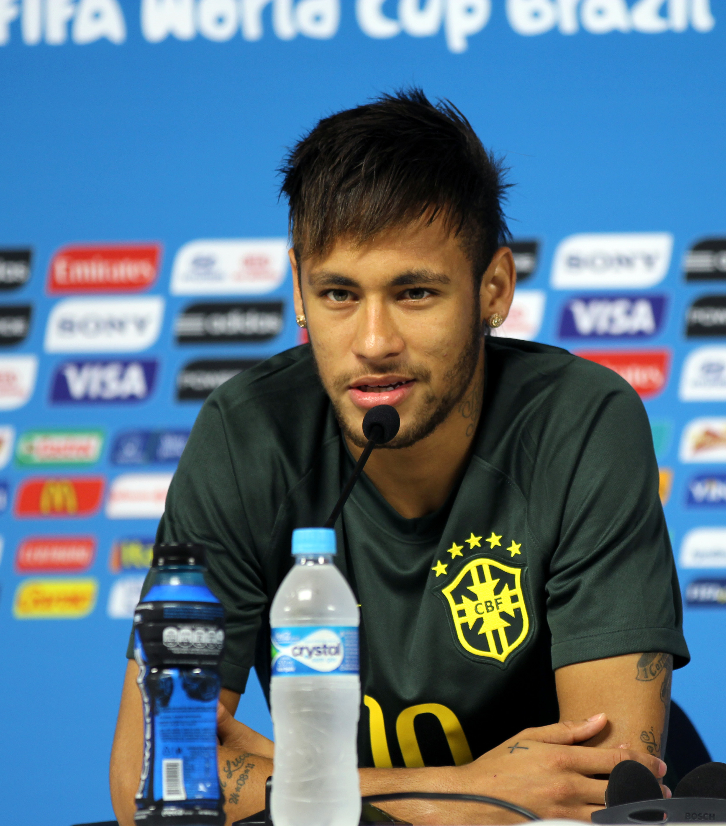 Brazil national team training for 1 day before the start of the first game of the 2014 World Cup qualifier against Croatia 2014-06-11